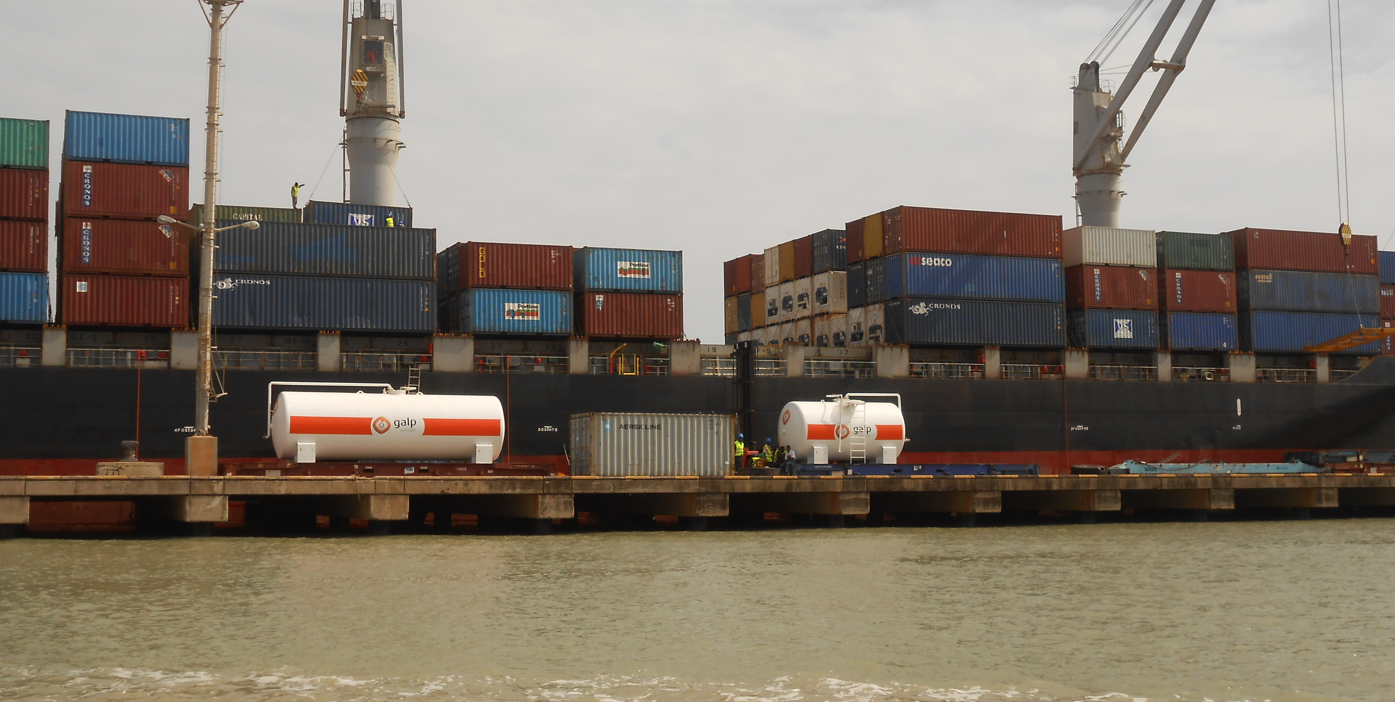 Fuel for ships by the portuguese Galp in the port of Bissau, behind lays the container ship "Windhoek" registered in Panama.